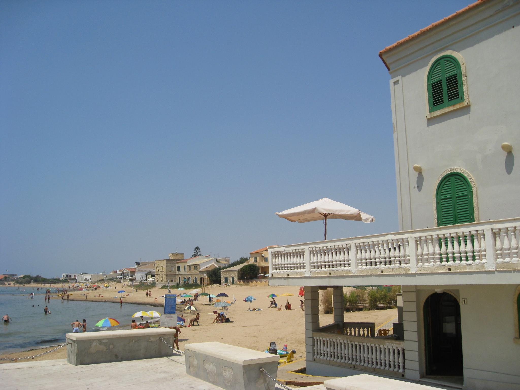 Punta Secca, Province of Ragusa, Italy